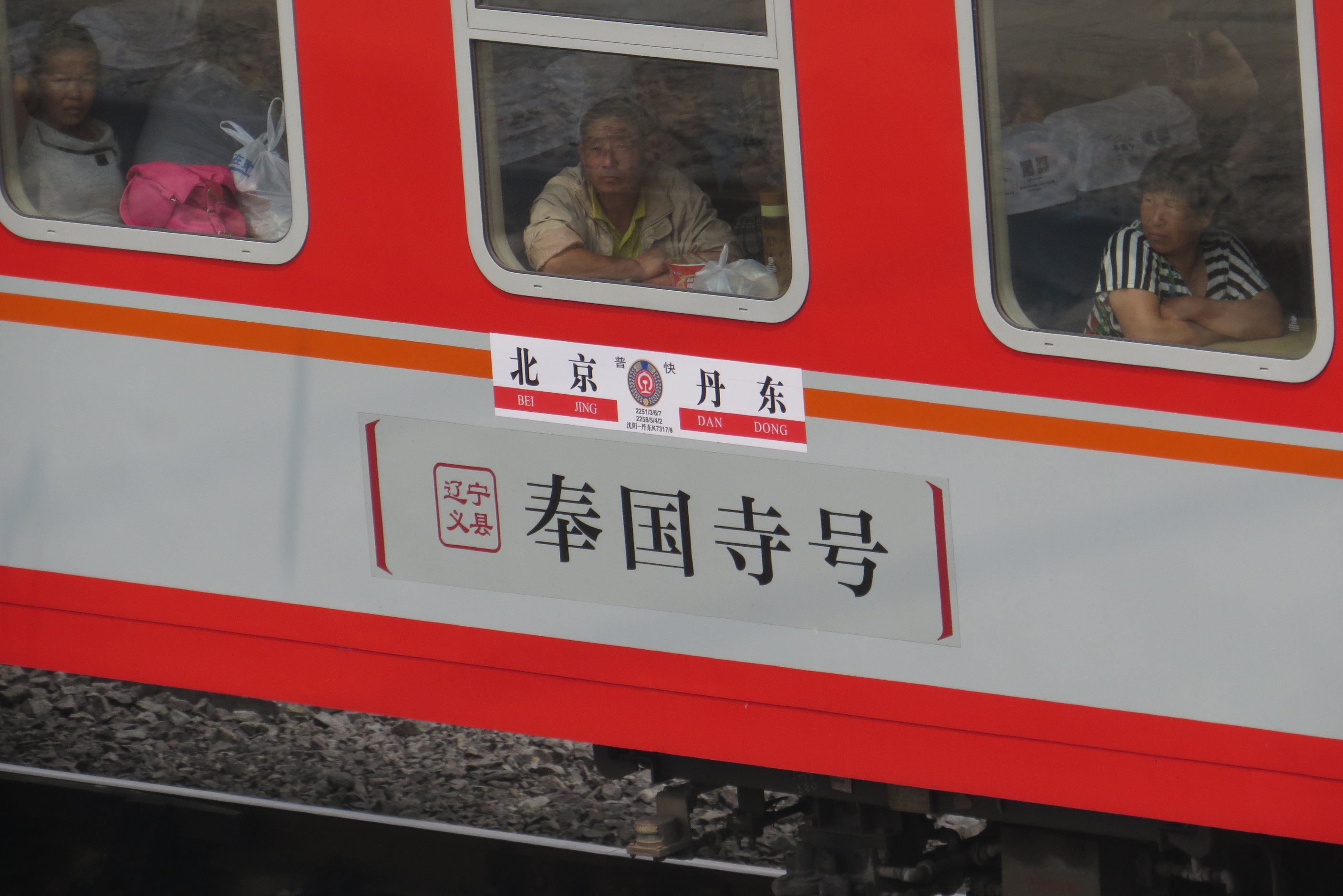 Another legendary train, which uses 8 train numbers! 2251/2253/2256/2257, 2258/2255/2254/2252.